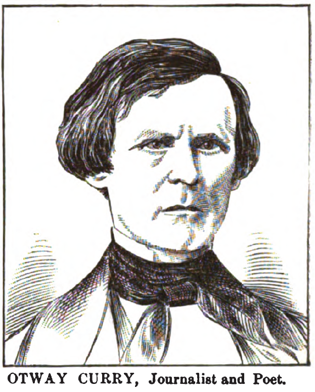 an Ohio journalist and poet named Otway Curry